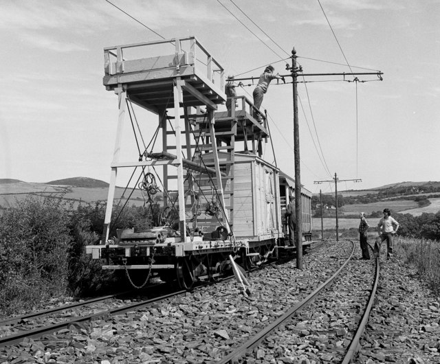 Overhead maintenance near Ballaglass